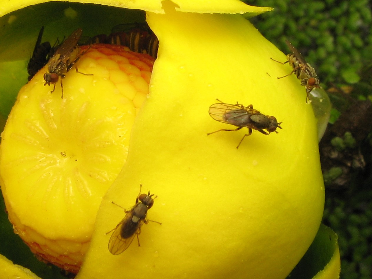 Notiphila on water lily. Peace Valley Nature Center, Bucks County, Pennsylvania, USA.